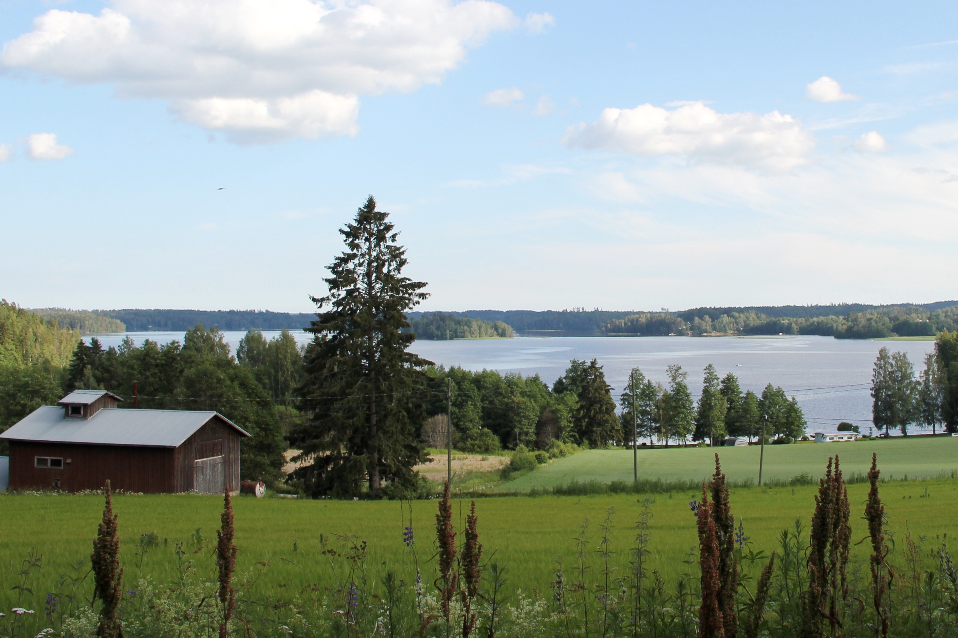 Hiidenvesi lake in Retlahti, Pusula, Lohja, Finland. Seen from north, in the front: Rumex longifolius.